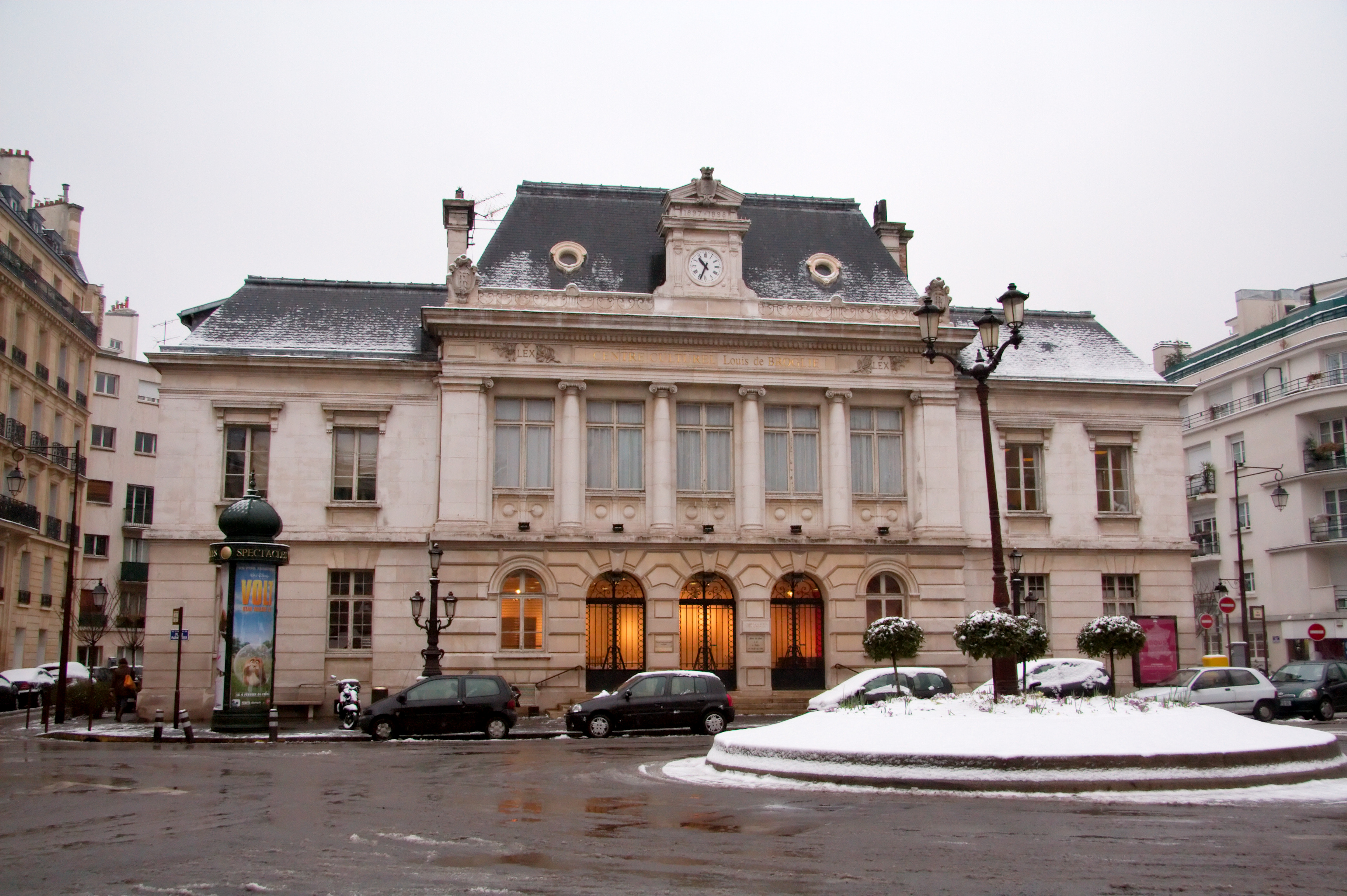 Cultural building Louis de Broglie, Neuilly-sur-Seine, France.